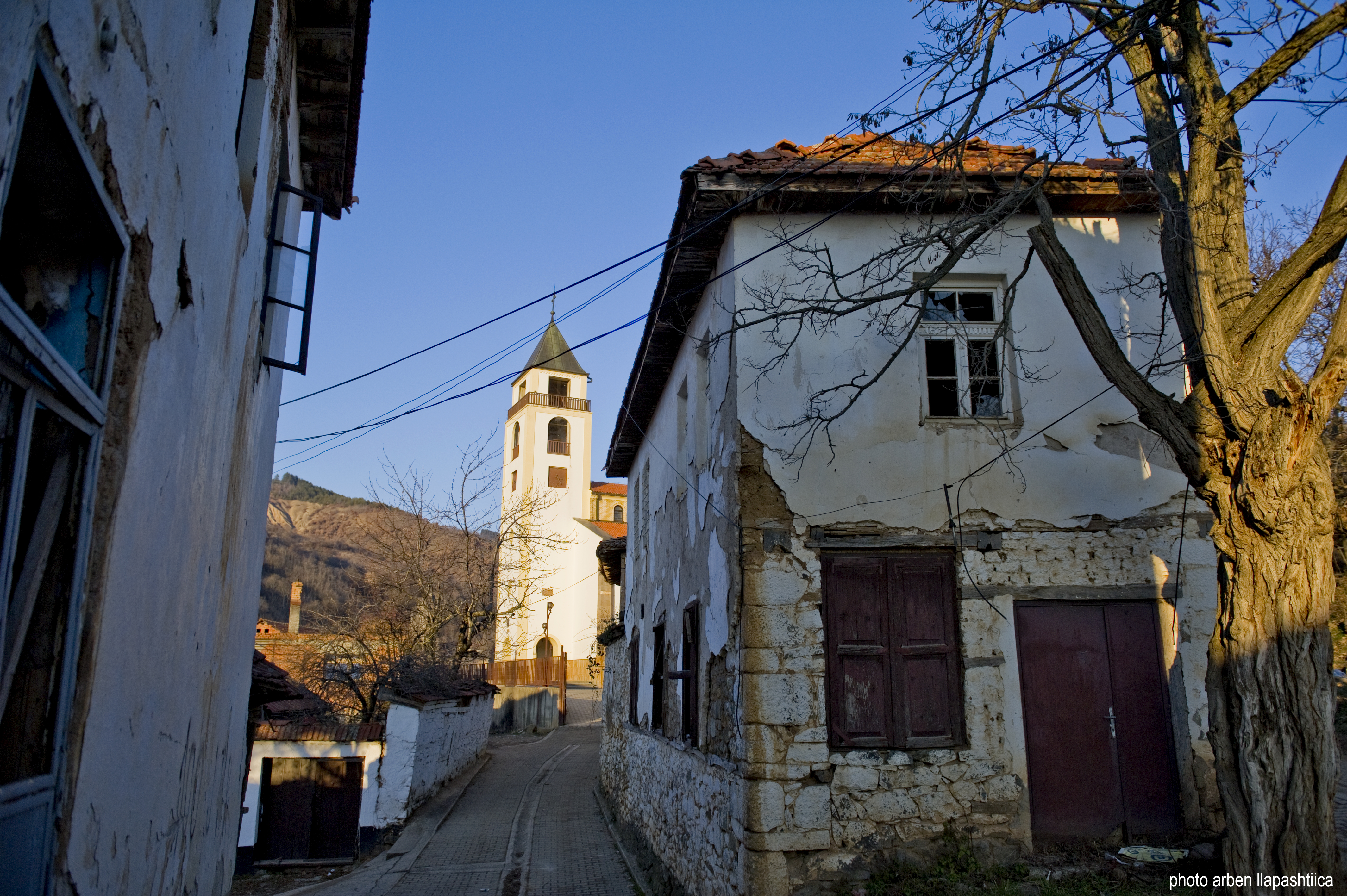 shtepi e braktisur ne Janjeve